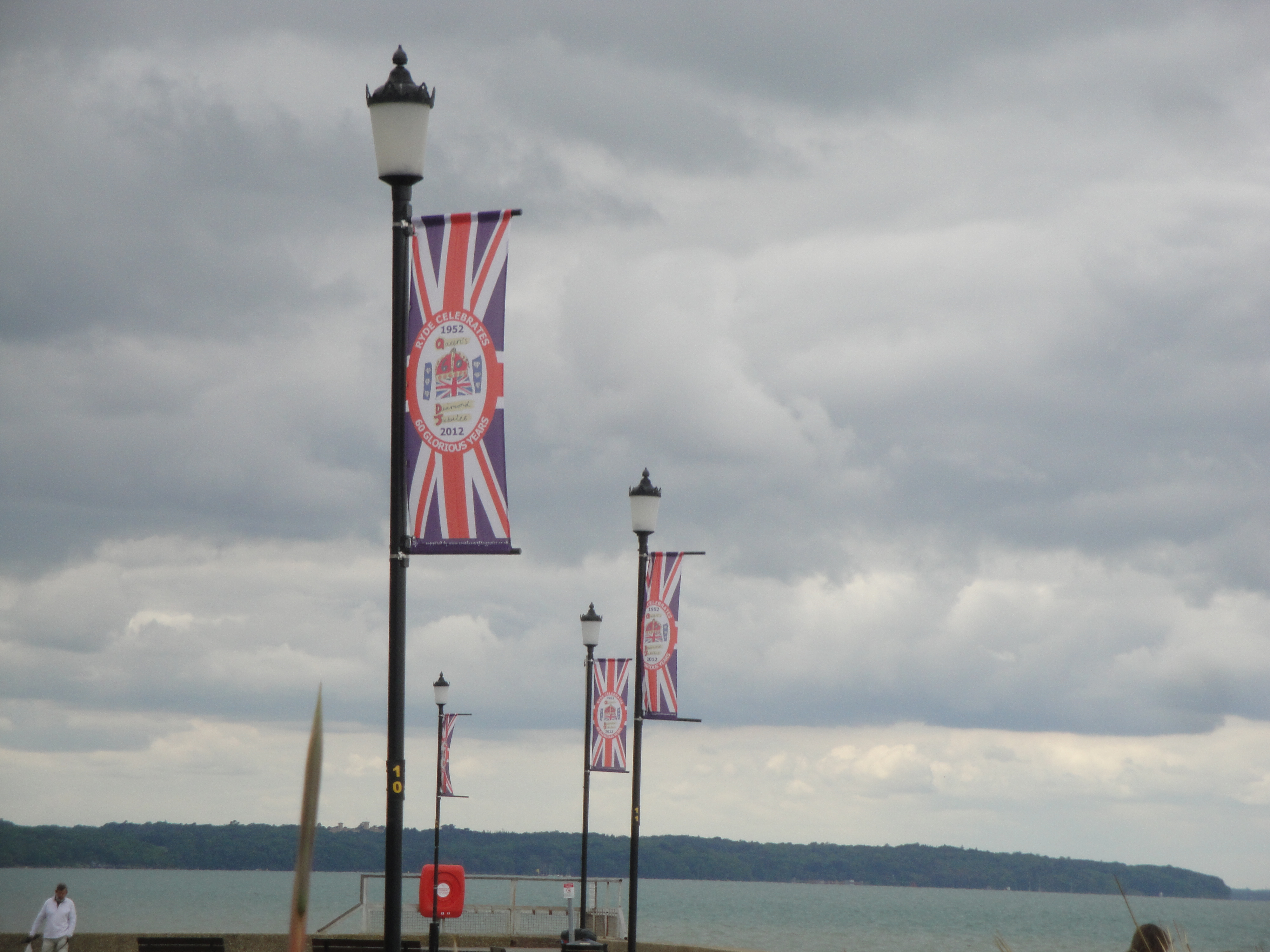 Decorations along the street lights at the Esplanade, Ryde, Isle of Wight, for the Diamond Jubilee of Queen Elizabeth II, in June 2012.